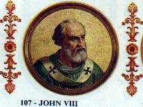 Portrait of Pope John VIII in the Basilica of Saint Paul Outside the Walls, Rome